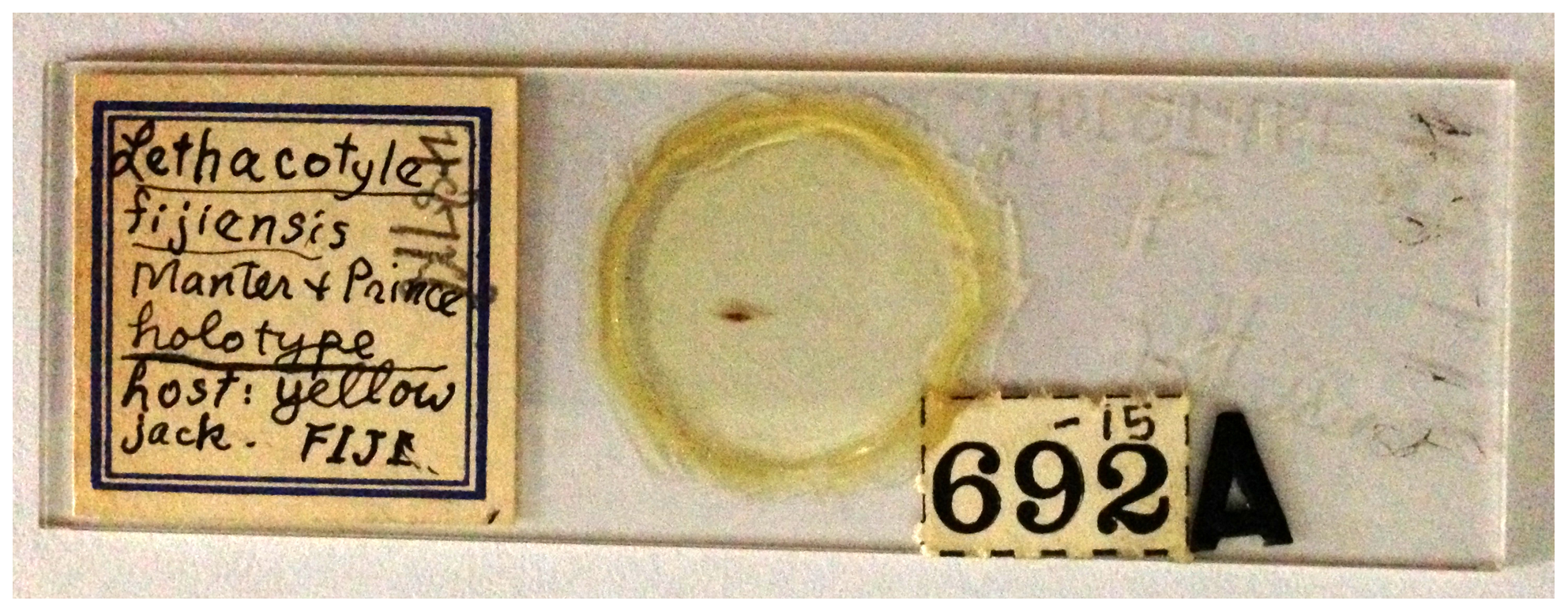 Microscopic slide of the holotype of Lethacotyle fijiensis Legend in published paper: Figure 1. The single specimen of Lethacotyle available for study before this paper. The slide containing the single specimen of Lethacotyle available for study before this paper: Holotype of Lethacotyle fijiensis Manter & Prince, 1953 urn:lsid: :act:DA367684-AAC2-44D0-A8E8-64894AFA647A,slide USNPC 48718. Our study is another example of the importance of Museum collections for modern research.